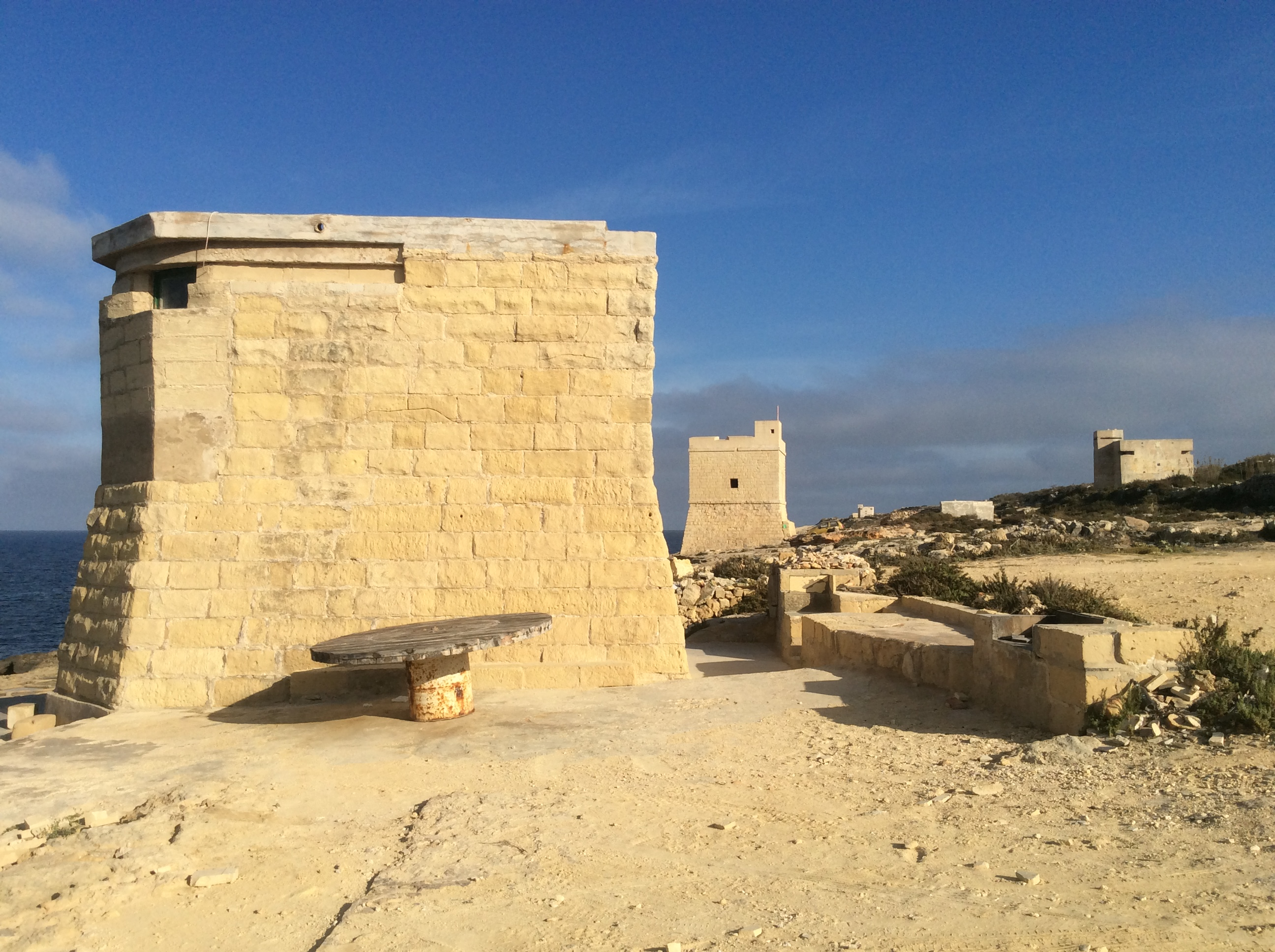 Towers and pillboxes in the limits of Żabbar (NOT Marsascala)